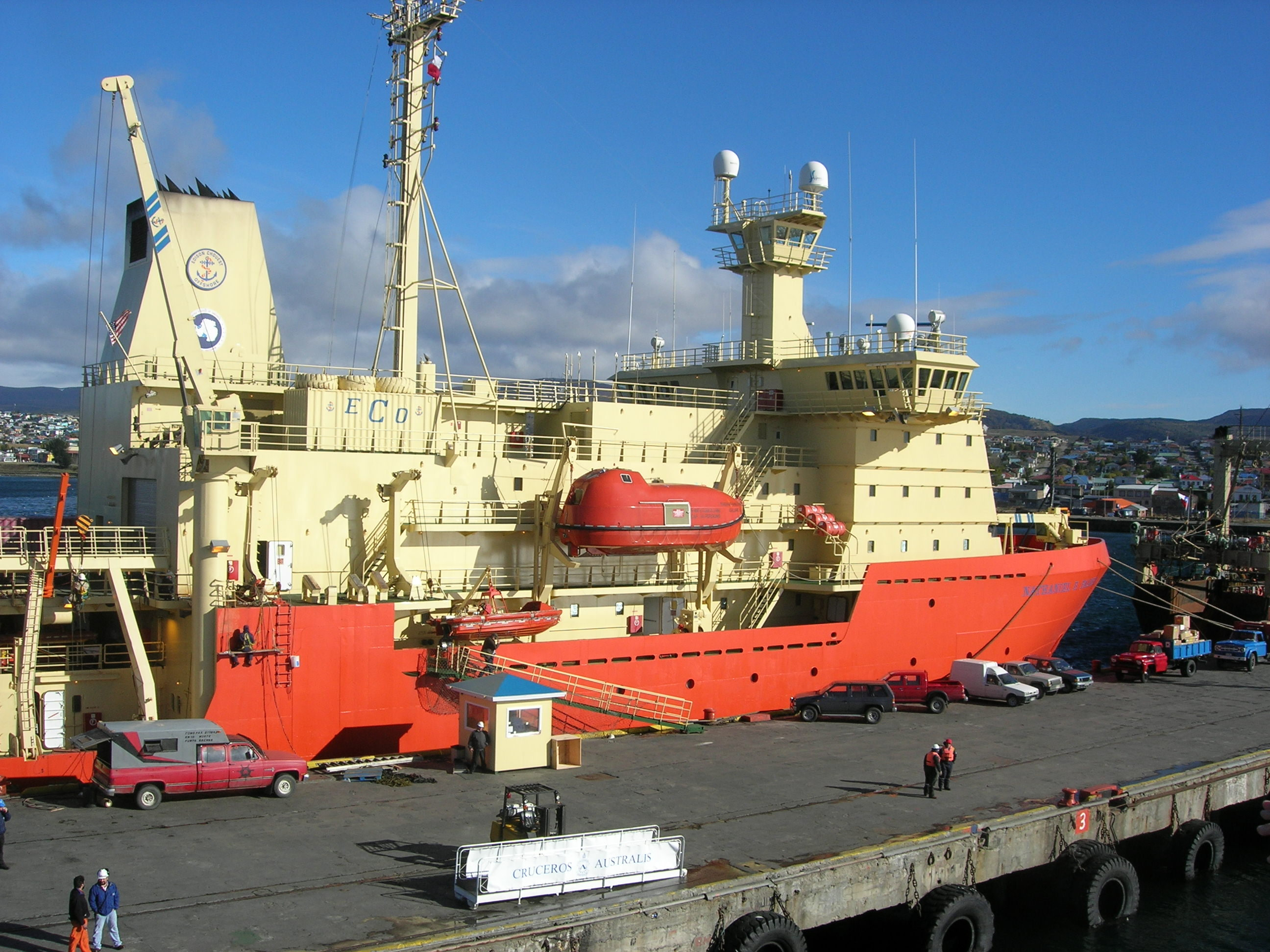 Description = Brise-glace americain dans le port de Punta Arenas ( Chili ) Source =Photo taken by Remi Jouan Date =Avril 2006 Author =Remi Jouan